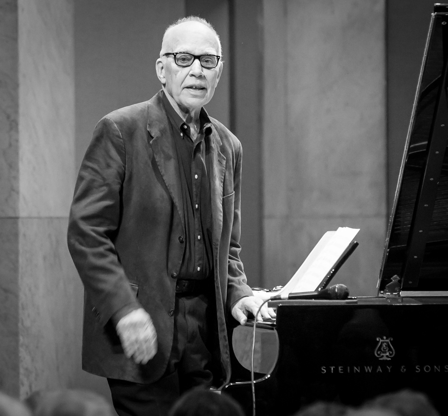 Steve Kuhn with Karin Krog and John Surman in the University Aula. The concert was part of Oslo Jazzfestival and took place on 16. August 2017 in Oslo. Lineup: Karin Krog (vocal), John Surman (baritone saxophone) and Steve Kuhn (piano).